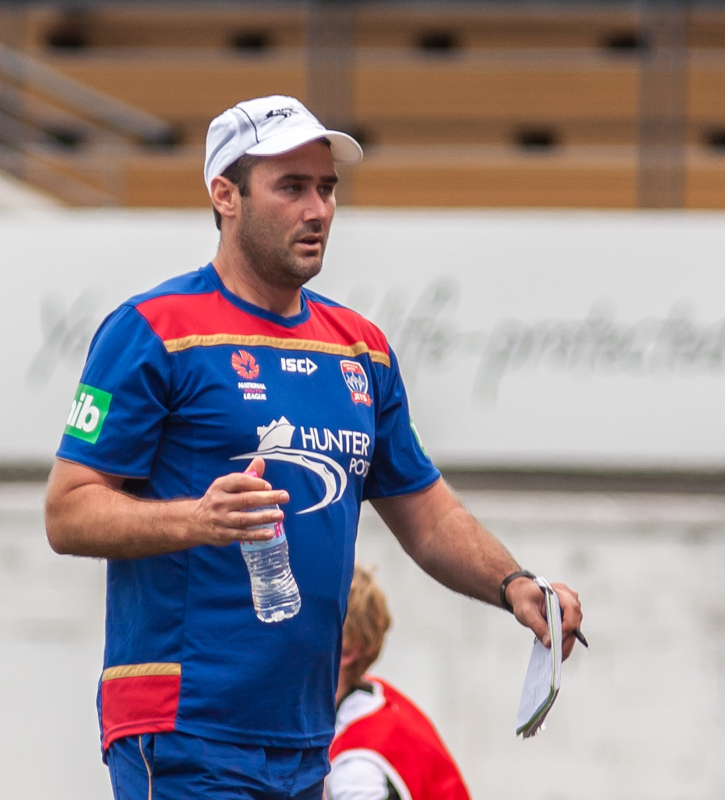 Clayton Zane in 2012 coaching the Newcastle Jets youth team.